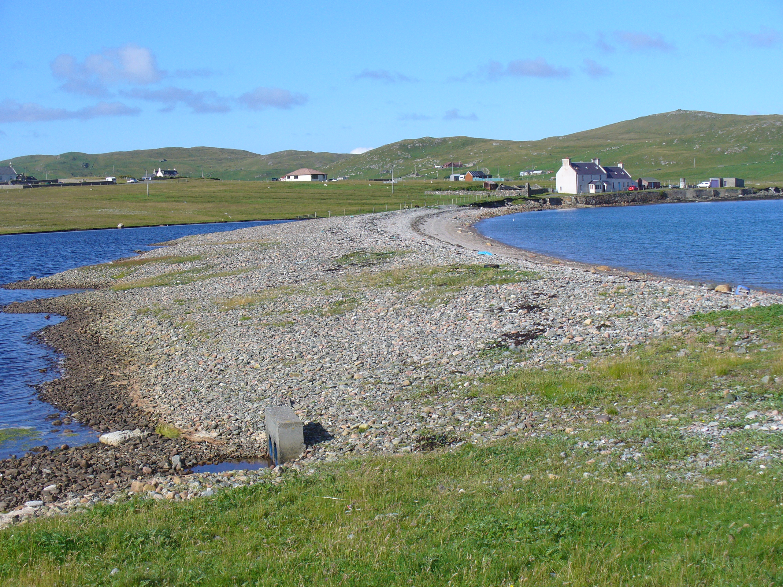 Ayre at North Roe. Also to be seen are the Bay Burra Voe on the right and the Loch of the North Haa on the left hand side. The white building on the beach is North Haa, which is a listed building.